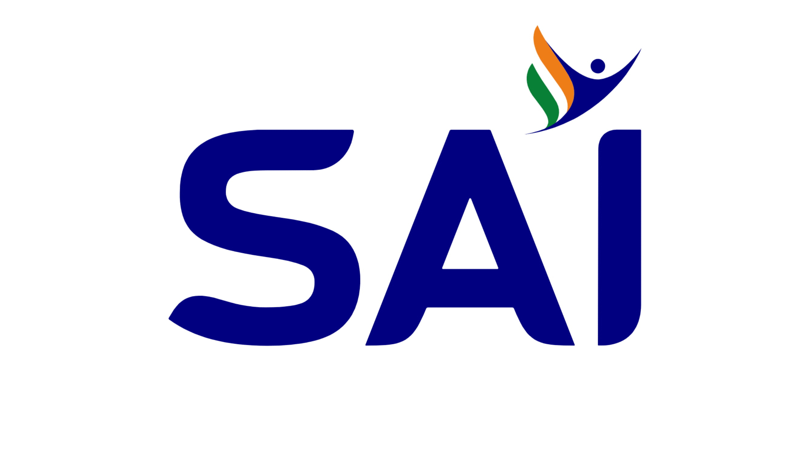 Sports Authority of India